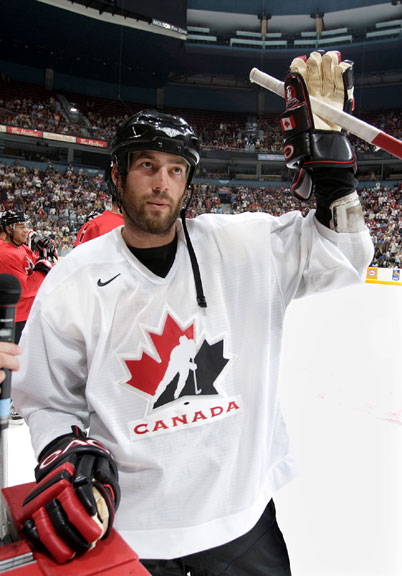 Todd Bertuzzi waving to crowd, 18. August 2005Bertuzzi waving to crowd